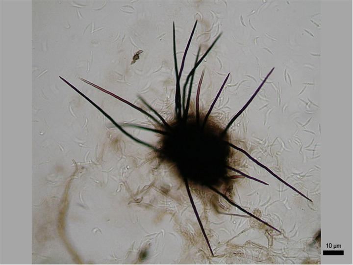 Setae of Colletotrichum sublineolum